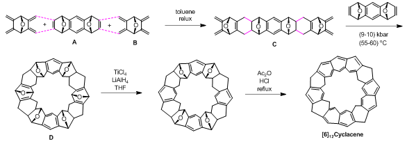 Synthesis of [6]12cyclacene by Stoddart and co-workers.